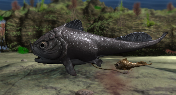 Materpiscis attenboroughi - Late Devonian fossilised placoderm fish giving birth